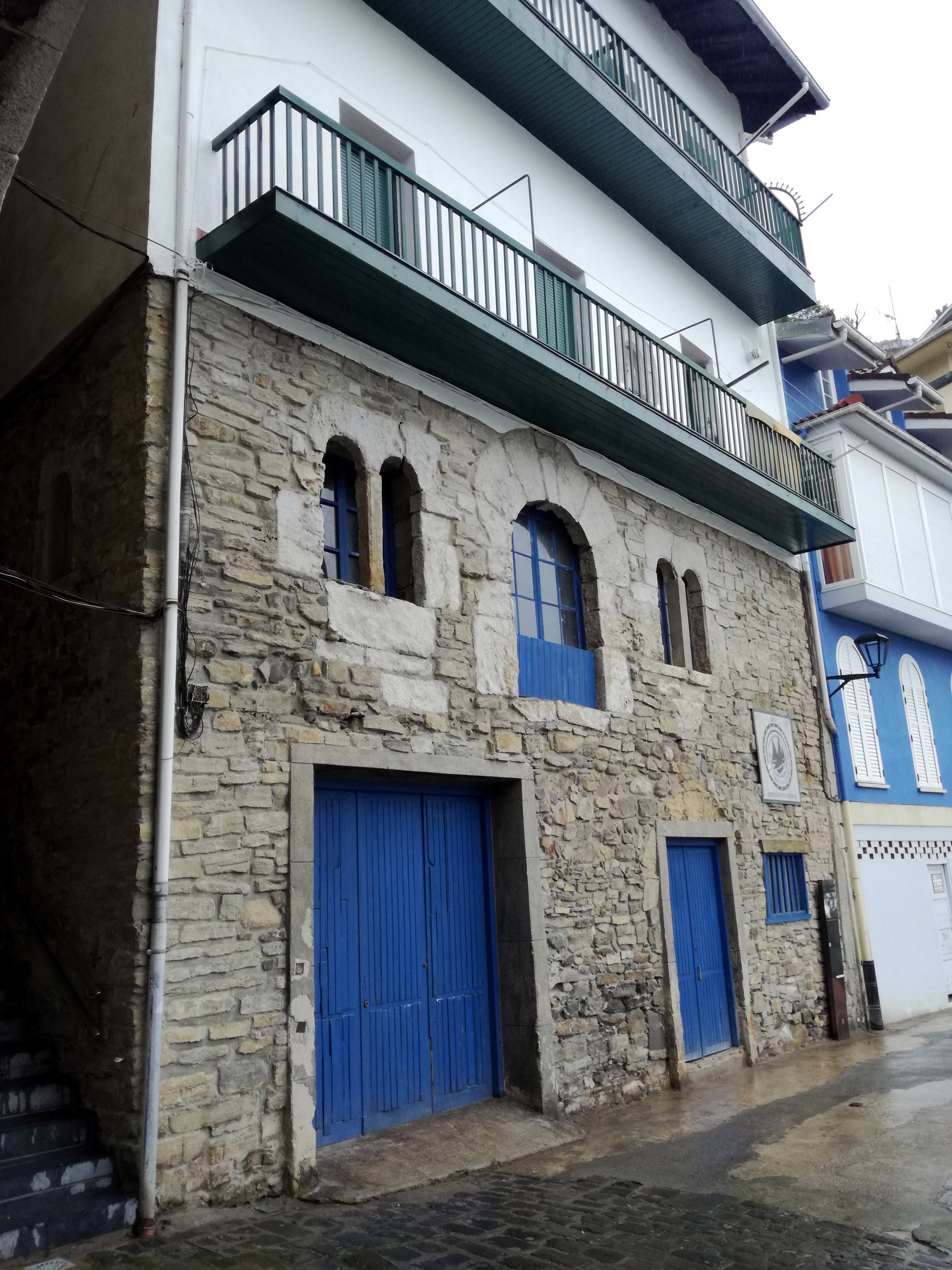 A fishermen's house now, it was a tower-house dated in the 16th century.